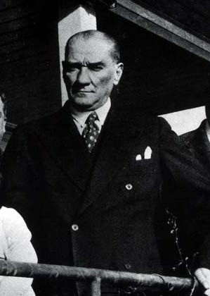 Salih Bozok, Ülkü Adatepe, Cevat Abbas Gürer, Mustafa Kemal Atatürk, and Ali Kılıç at Florya, Istanbul in 1937.